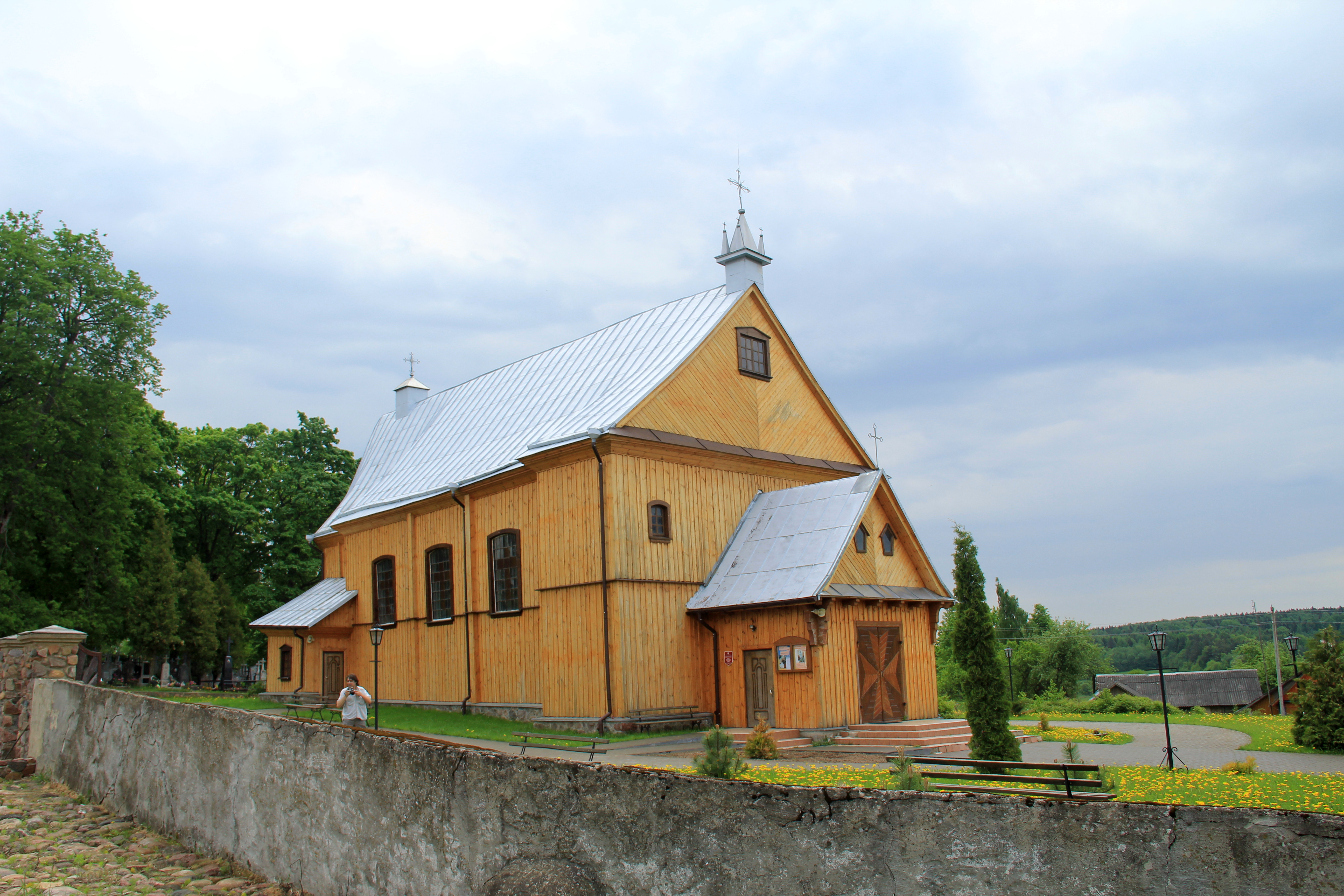 Catholic Church of the Visitation of the Blessed Virgin Mary (1764) in Hudahai, Astravets district, Hrodna region, Belarus